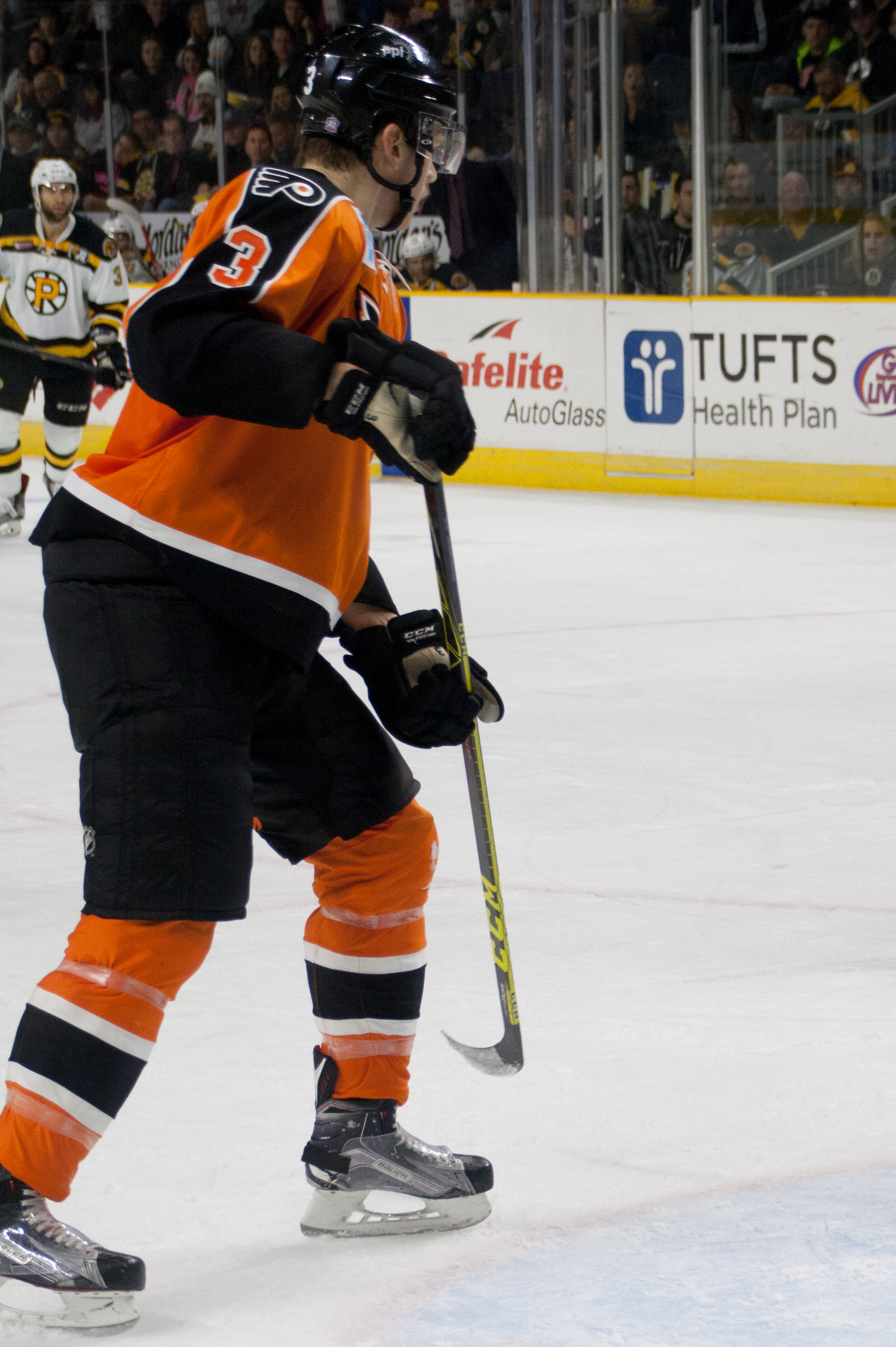 Samuel Morin with the Lehigh Valley Phantoms